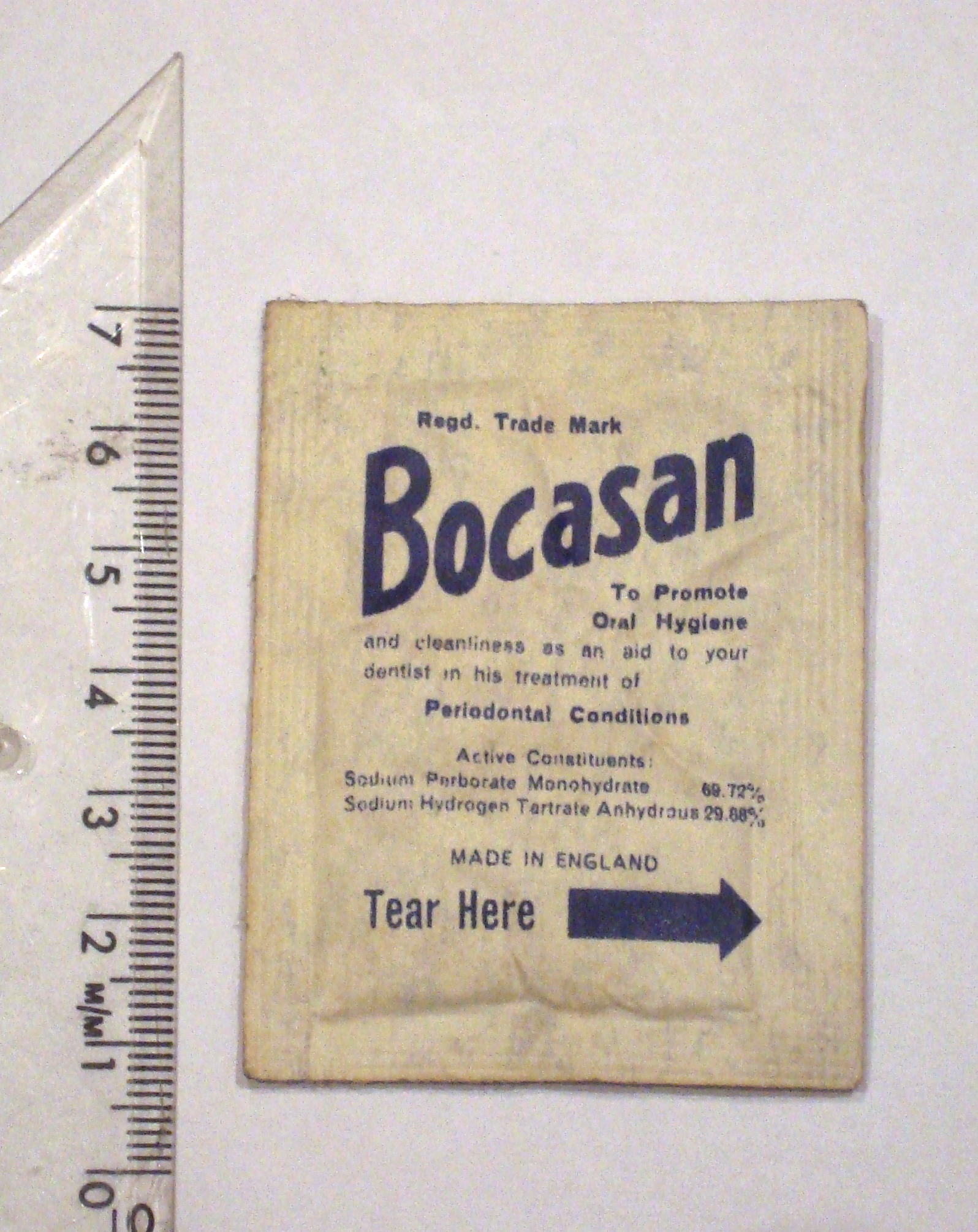 Front of Bocasan dental rinse packet (no longer manufactured)